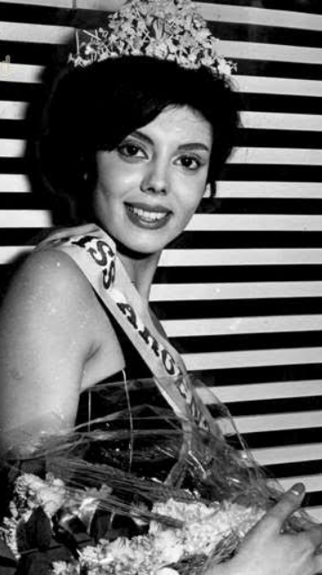 Photograph of Ms. Norma Cappagli during Miss Argentina, taken in 1960, Buenos Aires, before competing in Miss World.